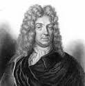 Jean-Baptiste-Henri de Valincour, historian, amiral, naval officer. Member of the French Academy.